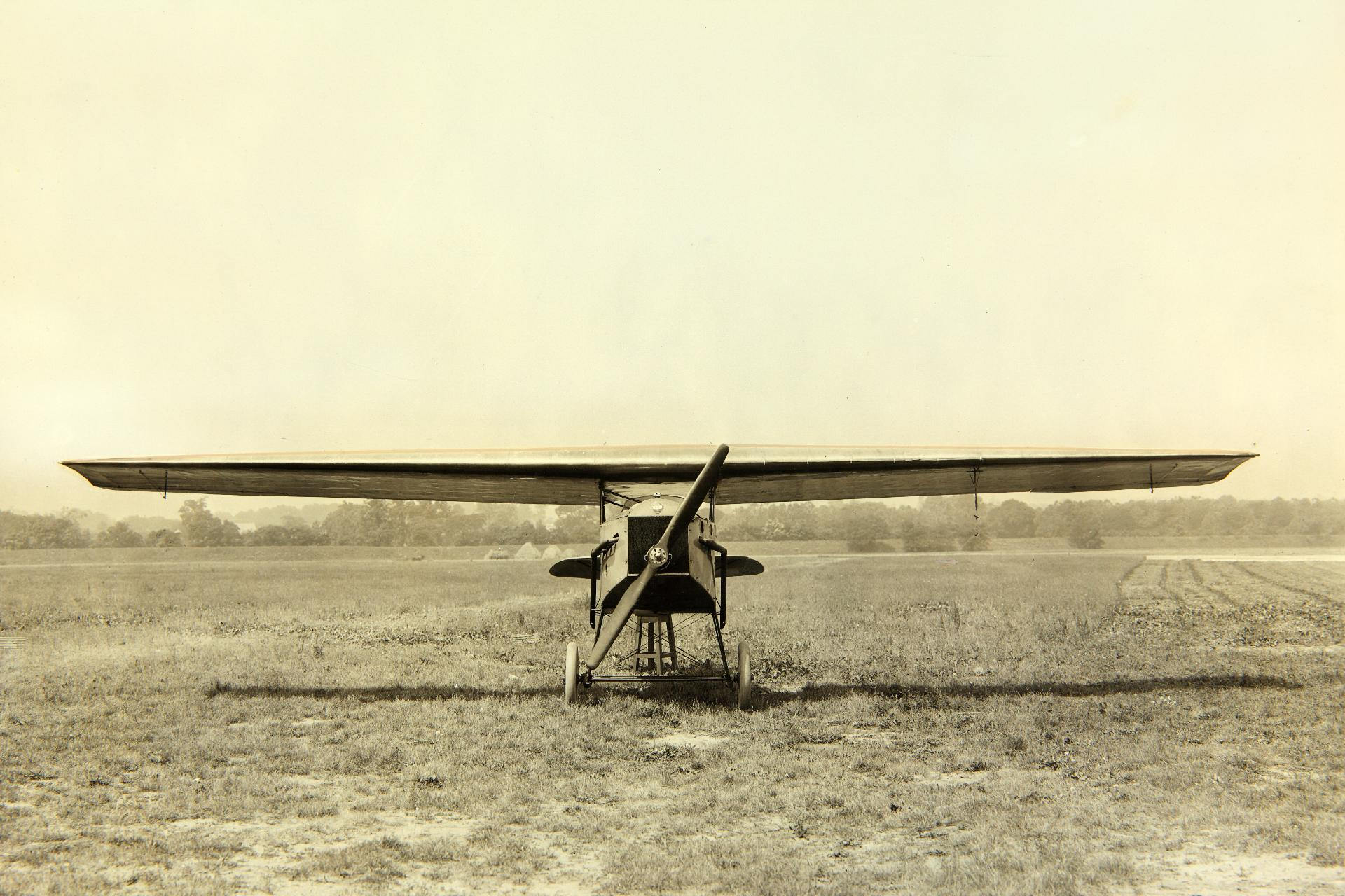 Fokker S.I TW-4 V.44 front